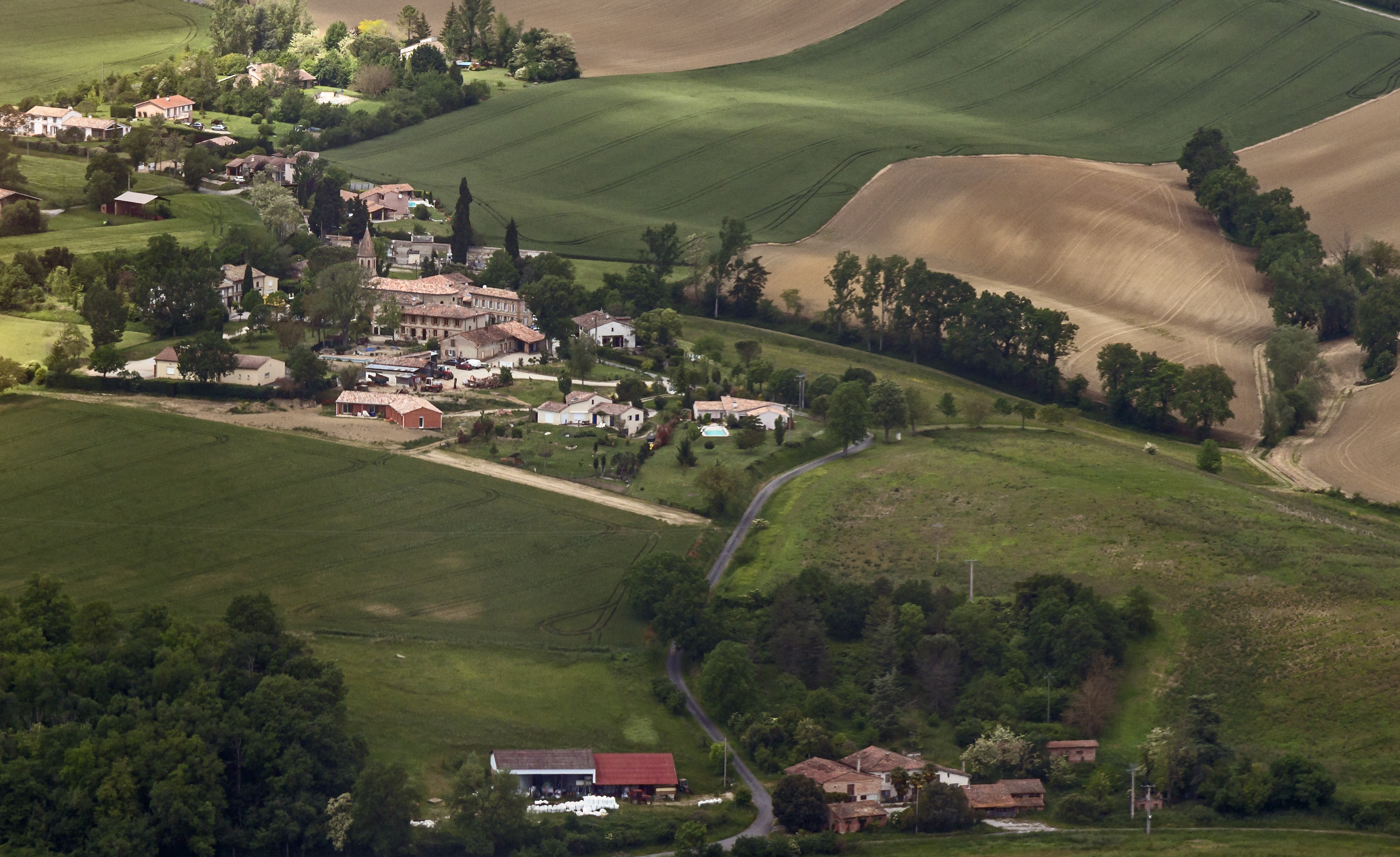 Aerial view of Pugnères, Commune of Teulat, Tarn, France.